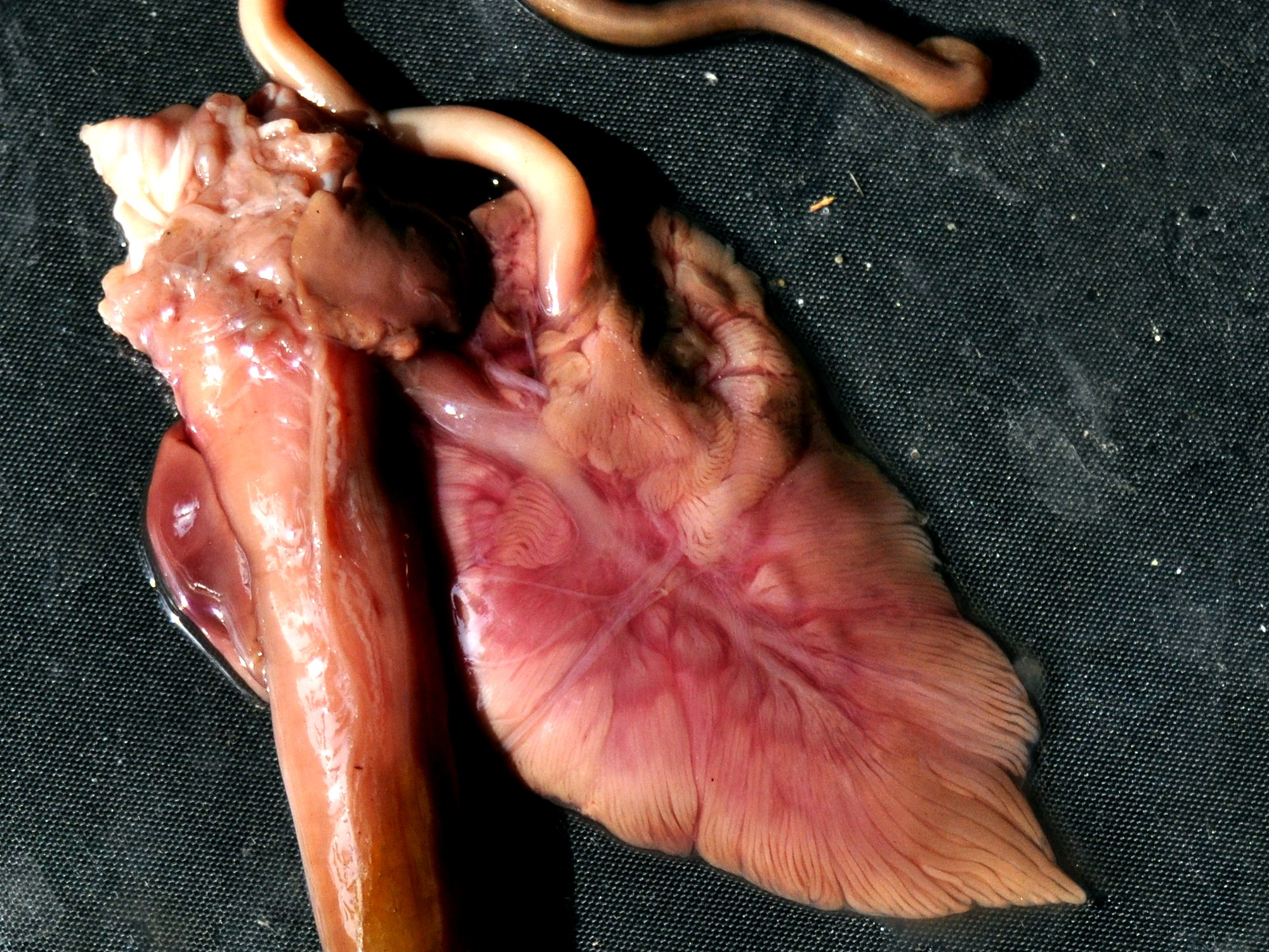 Thunnus obesus, juvenile 22cm FL; from a local market in Bogor, West Java, Indonesia. Striated liver.